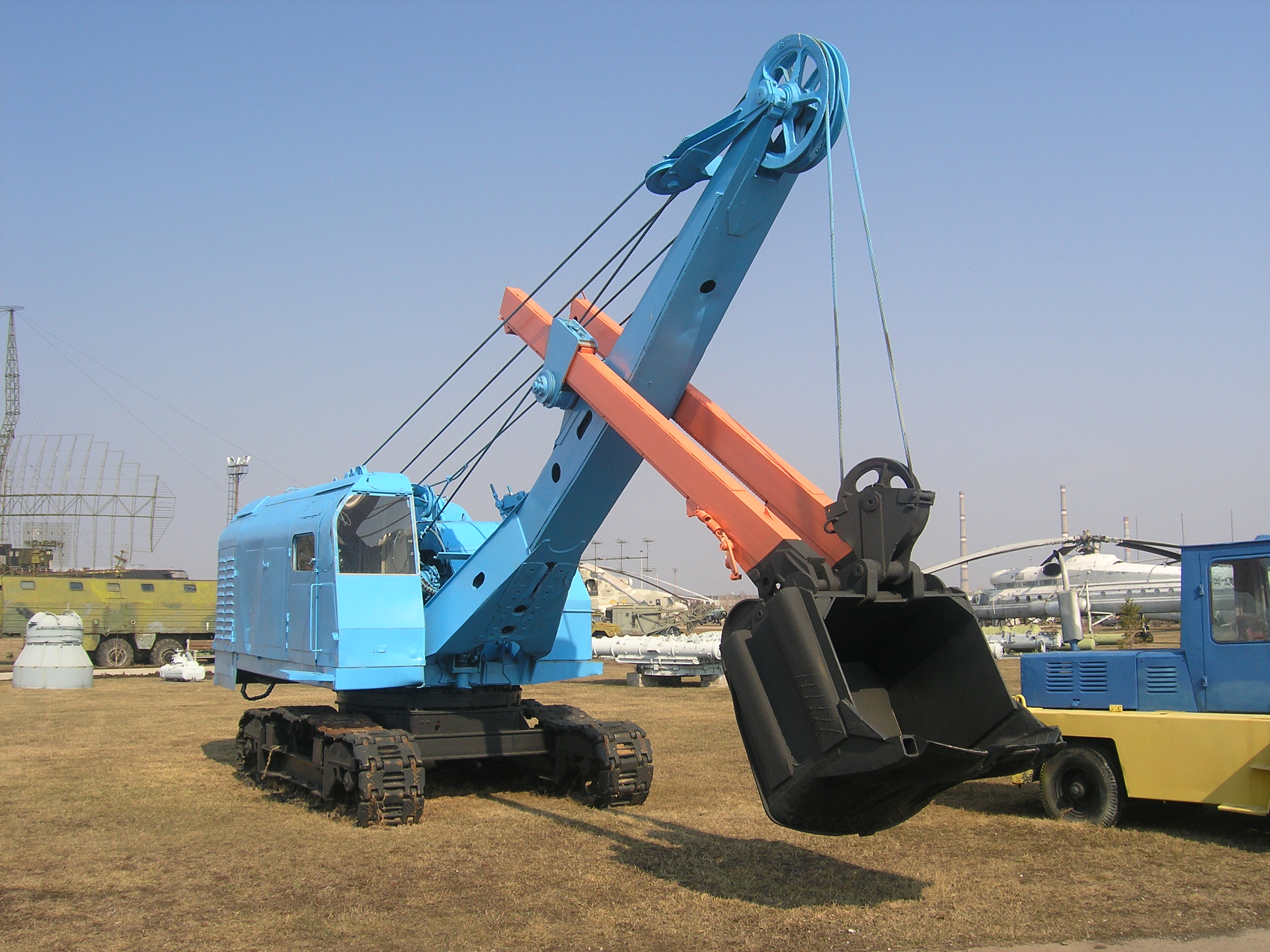 Excavator EO-5111B in Technical museum Togliatti